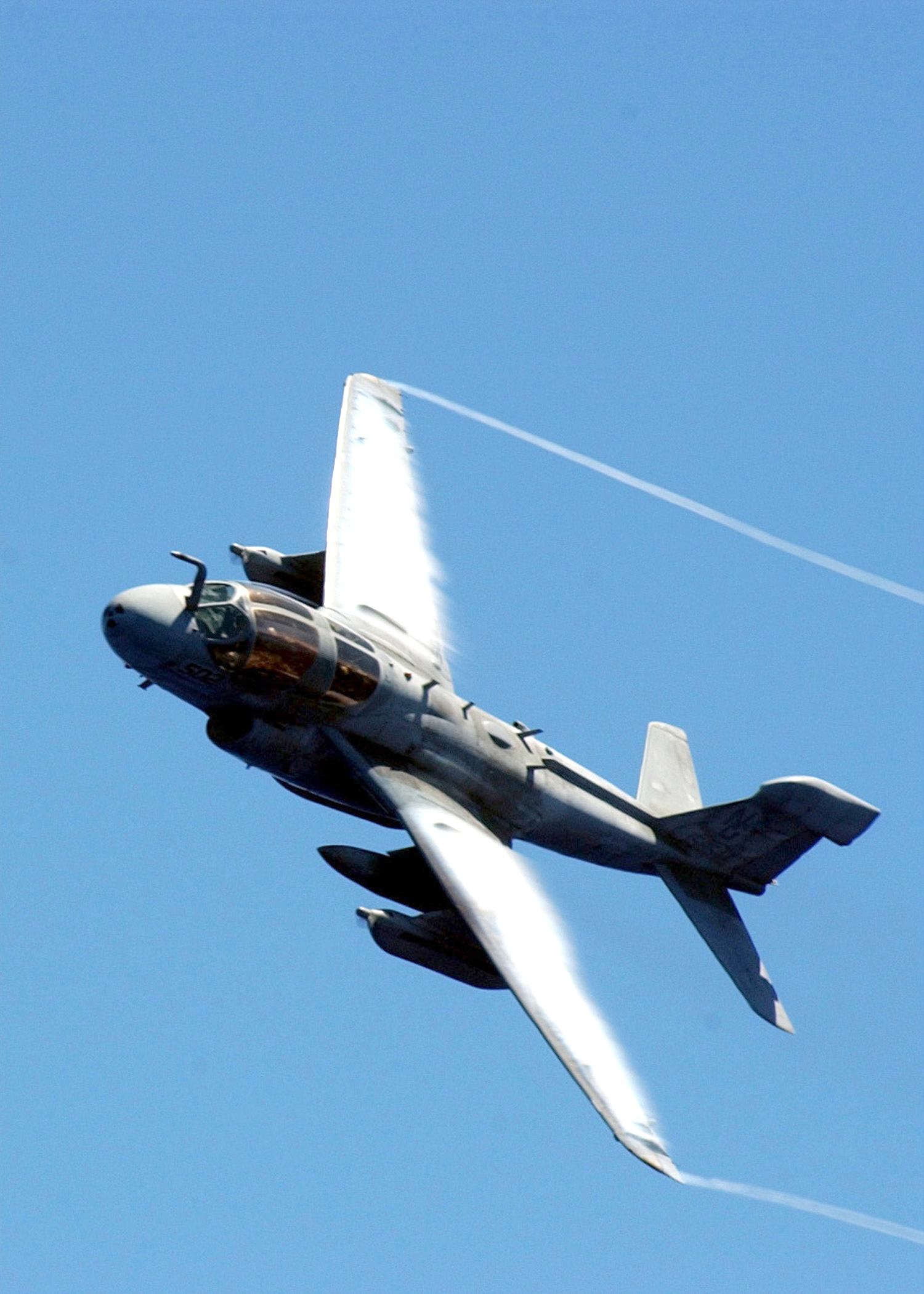 Pacific Ocean (Feb. 19, 2003) - An EA-6B Prowler assigned to the "Yellow Jackets" of Electronic Attack Squadron One Three Eight (VAQ-138) performs a fly-by during flight operations conducted aboard the aircraft carrier USS Carl Vinson (CVN 70). Carl Vinson is currently conducting operations in the Pacific Ocean. U.S. Navy photo by Photographer's Mate 3rd Class Martin S. Fuentes (RELEASED)